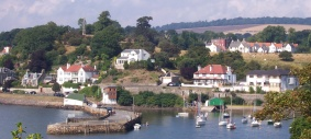 Harbour at Aberdour, Fife; photo by Ian Fraser